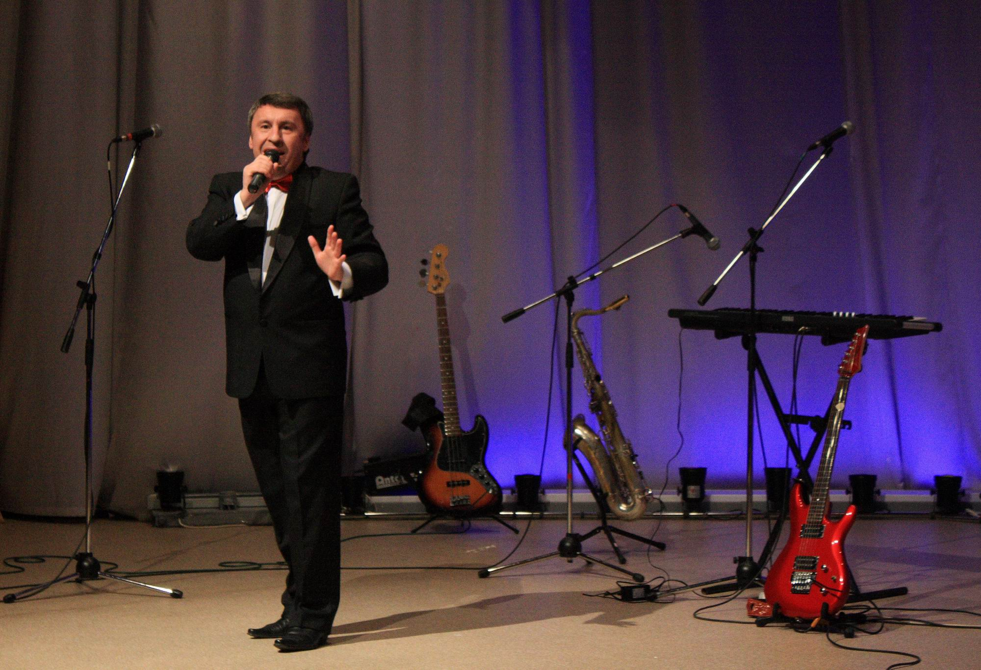 Conferencier